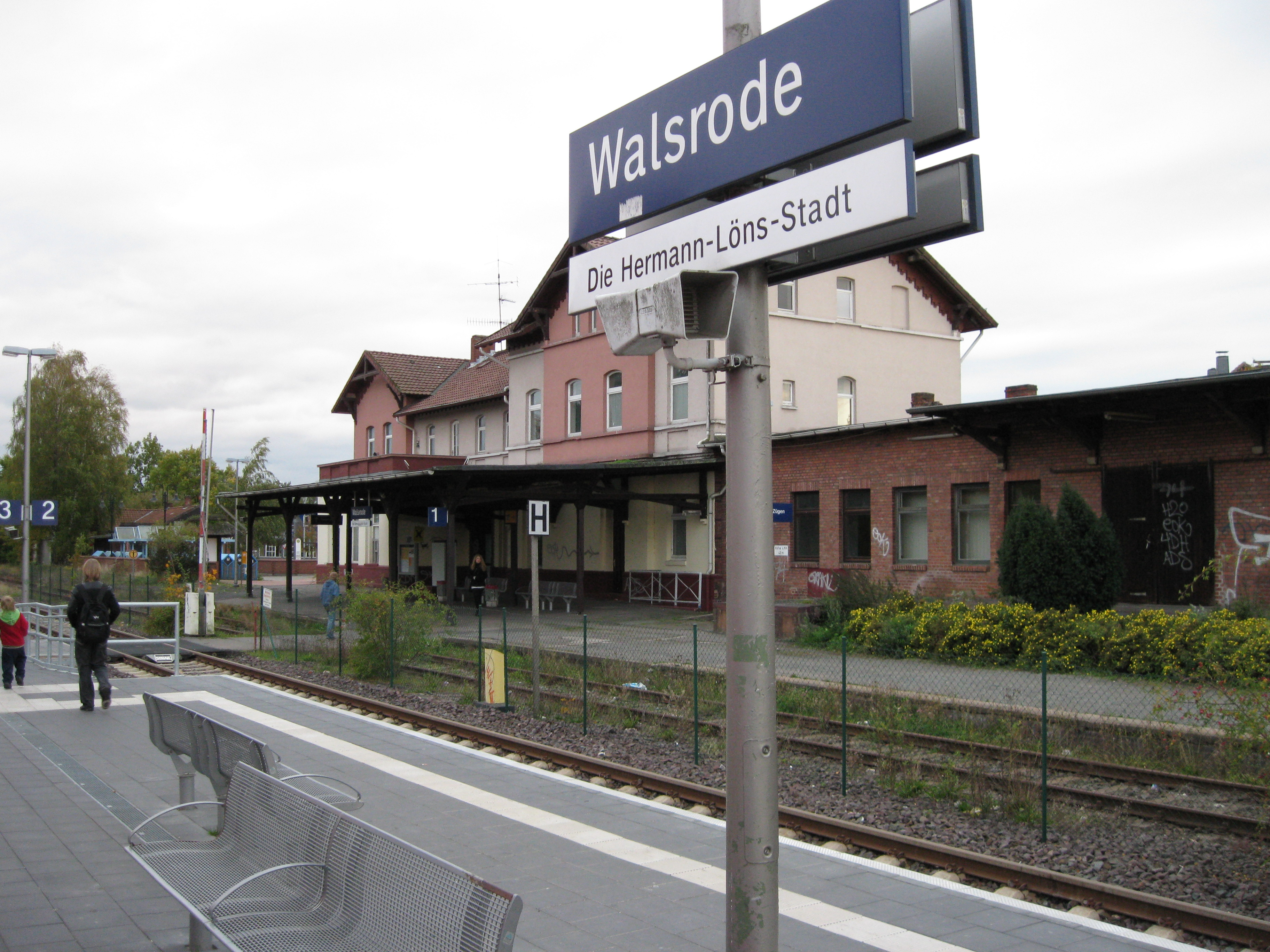 Walsrode Station, Germany